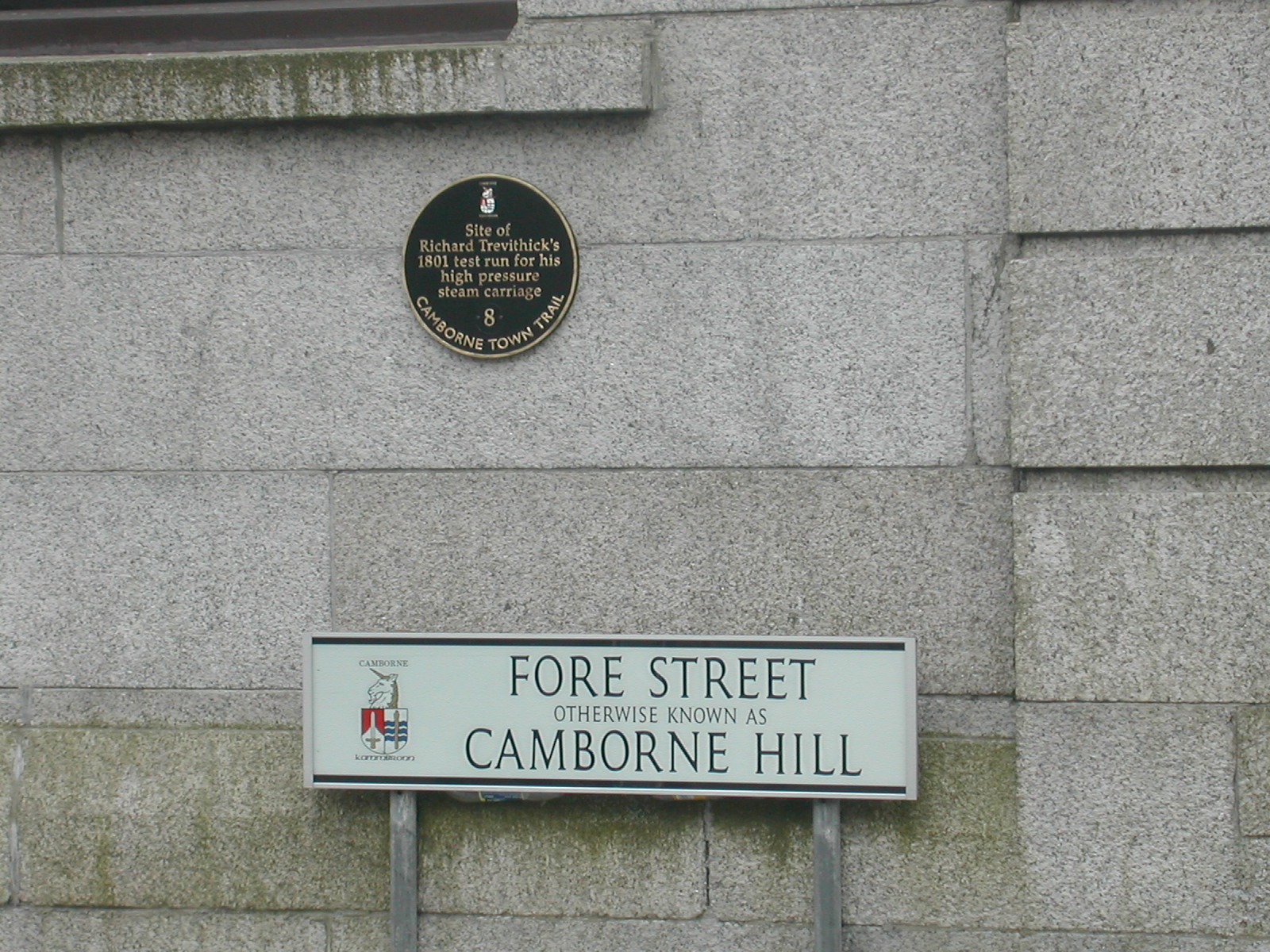 Fore Street, Camborne, Cornwall, United Kingdom, also known as 'Camborne Hill', along which Richard Trevithick was the first to demonstrate automotive (high pressure steam) power on Christmas Eve, 1801. Street name and plaque. Author Chris Angove June 2006